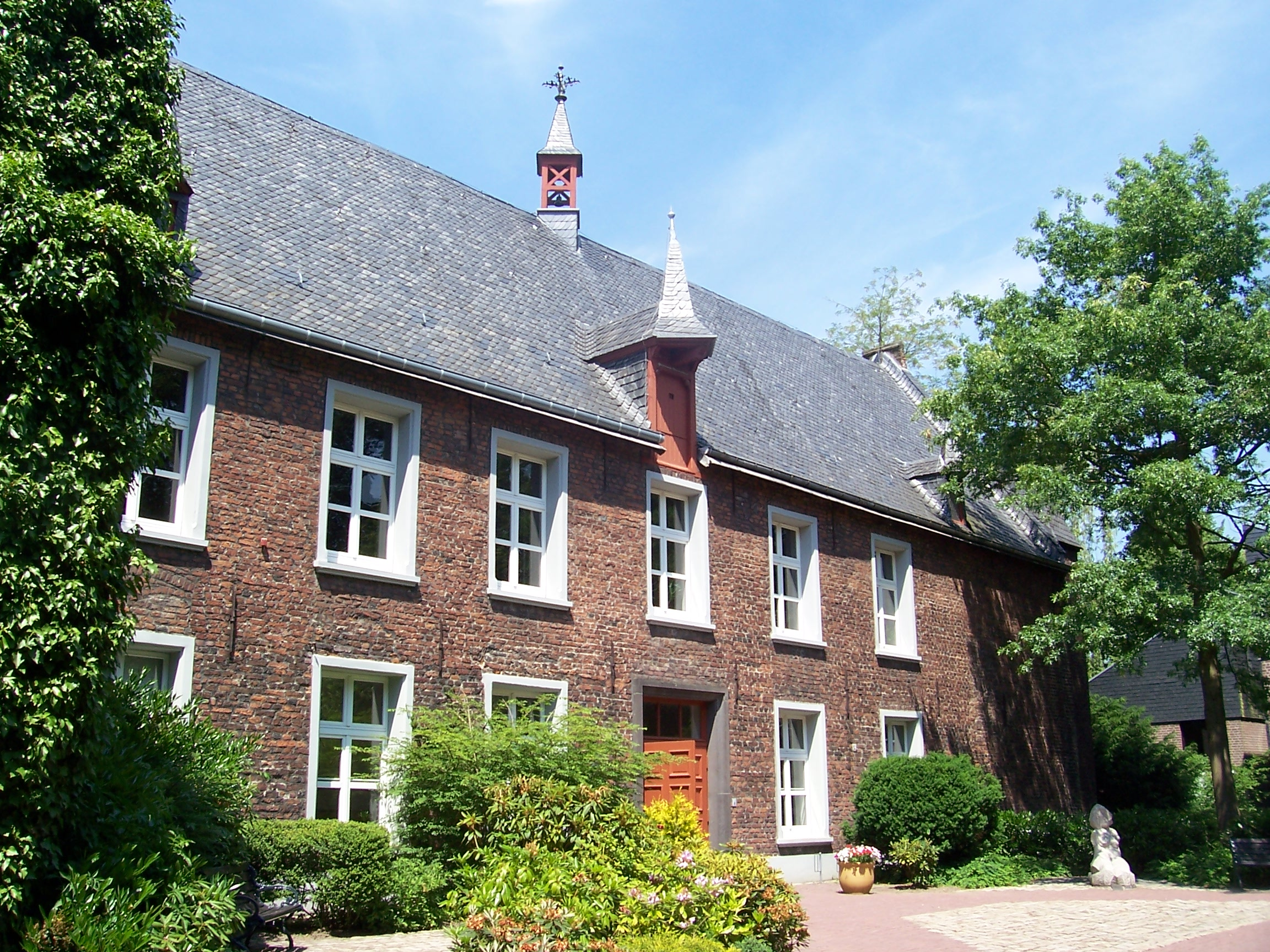 Haus Issum, part of a former castle in Issum, Germany